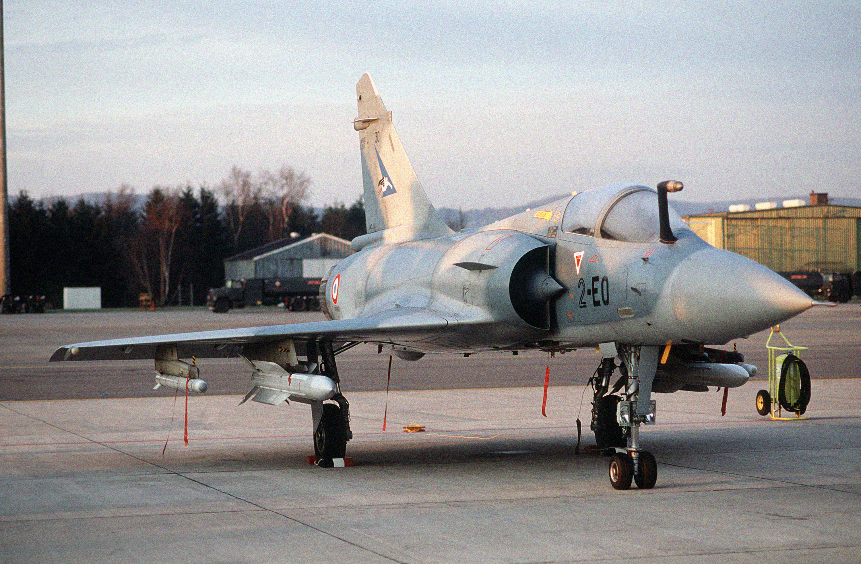 A right front view of a French Mirage 2000 aircraft parked on the flight line during the change of command ceremony for the US Air Force Europe, and Allied Air Forces Central Europe.